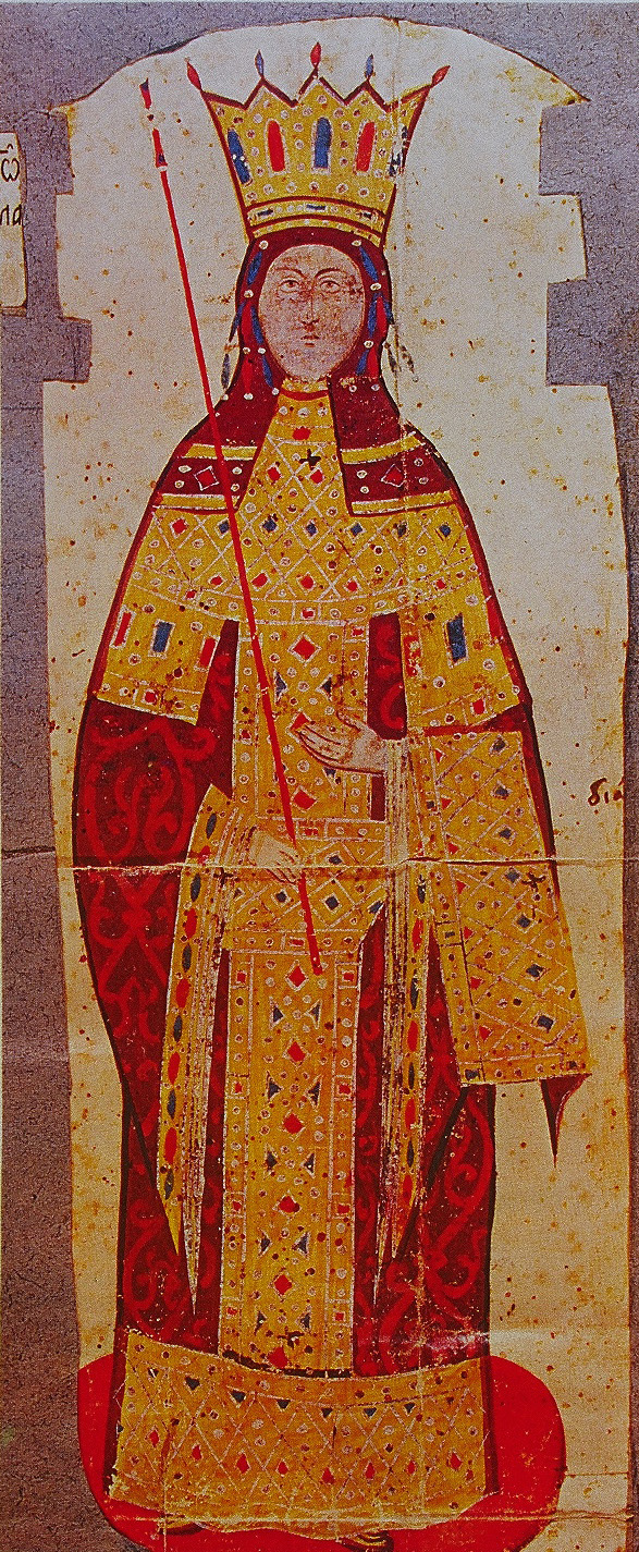 Anna of Savoy, wife of emperor Andronikos III Palaiologos. 14th-c. miniature. Stuttgart, Württembergische Landesbibliothek.